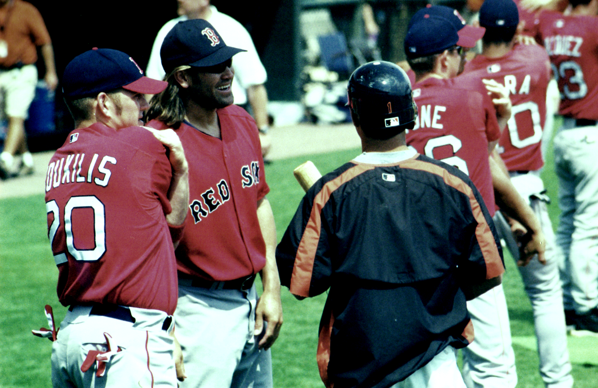 Johnny Damon, center, jokes with fellow Red Sox player Kevin Youklis and Baltimore player Brian Roberts. Spring Training 2005. Photo by Googie Man 02:36, 24 May 2005 . . Googie man . . 1,200×778 (1.36 MB)